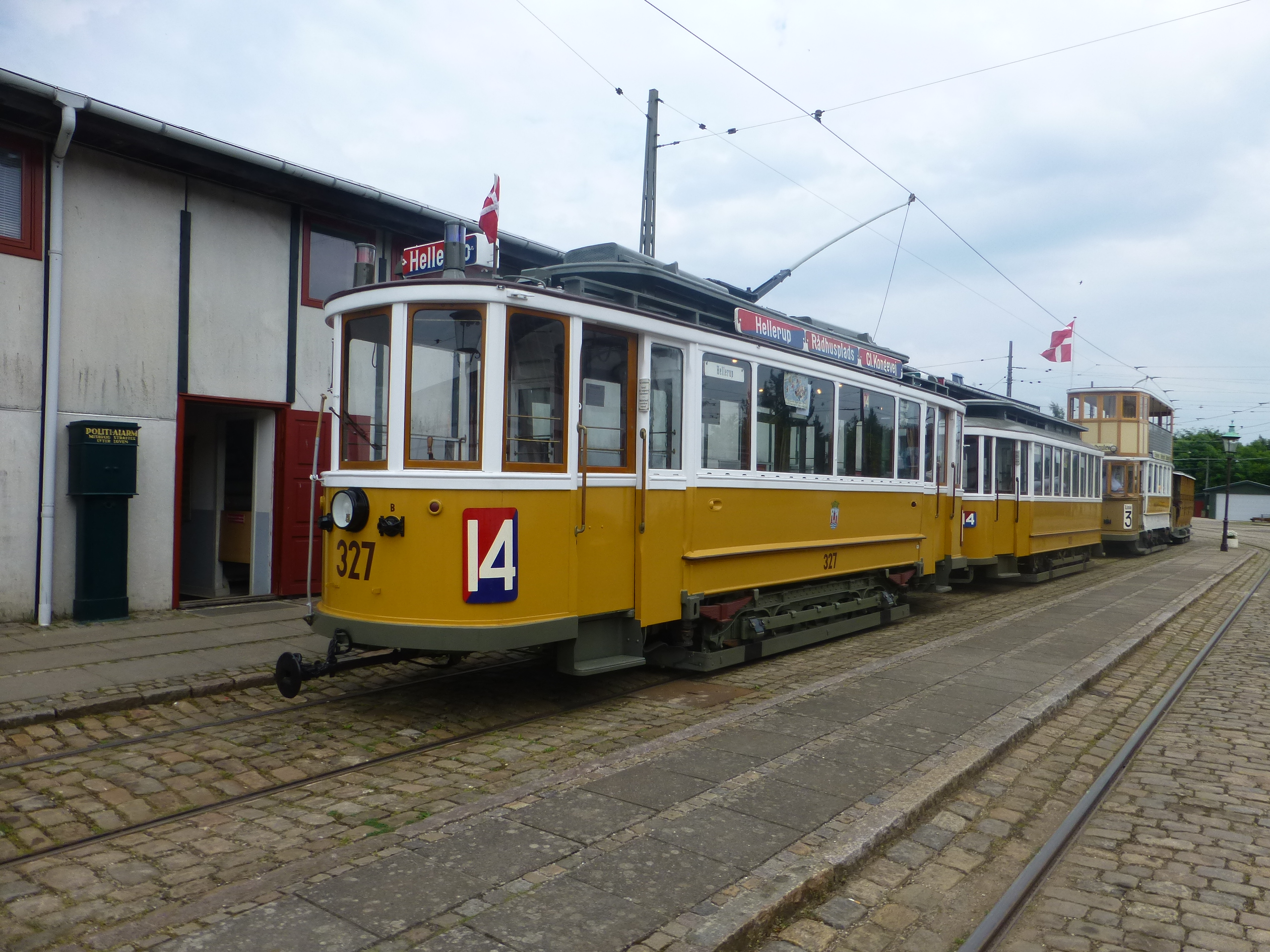 Old trams from Copenhagen KS 327+1321 on Sporvejsmuseet Skjoldenæsholm in Denmark.